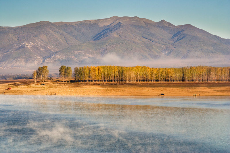 Koprinka dam in Bulgaria near the village with the same name.